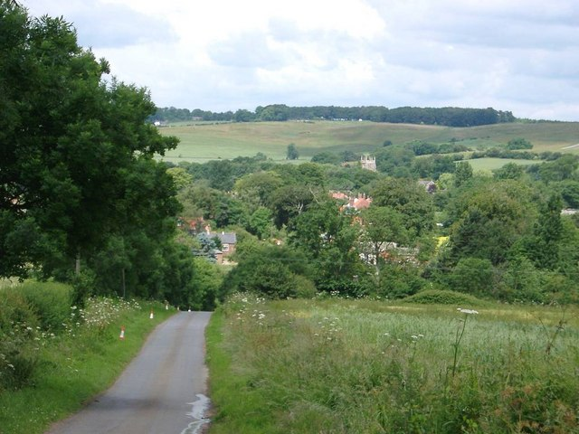 Old Bolingbroke View of the village from Keal Hill